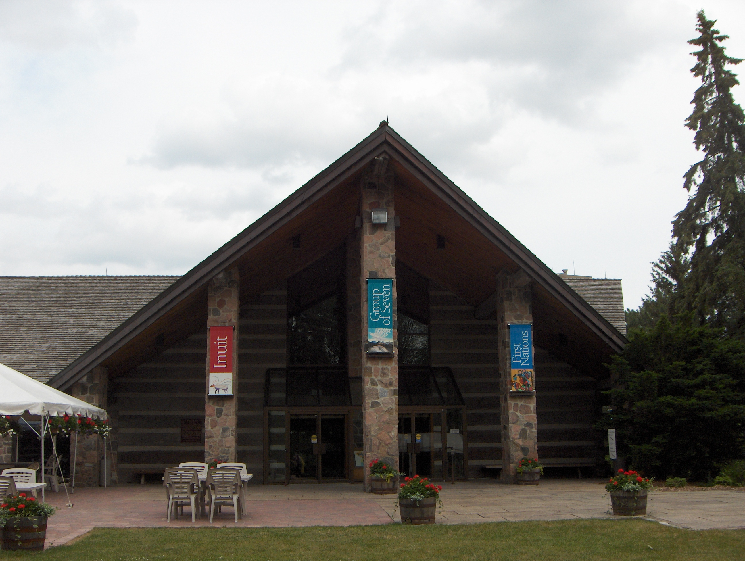 Exterior of the McMichael Canadian Art Collection gallery in Kleinburg, Ontario, Canada